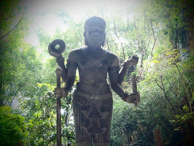 A sculpture found in one of the caves in Phnom Sampeau hills